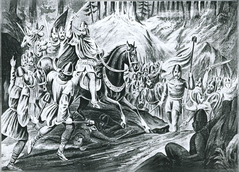 Glorious victory of Vojislav against the Greeks, year 1043. lithography